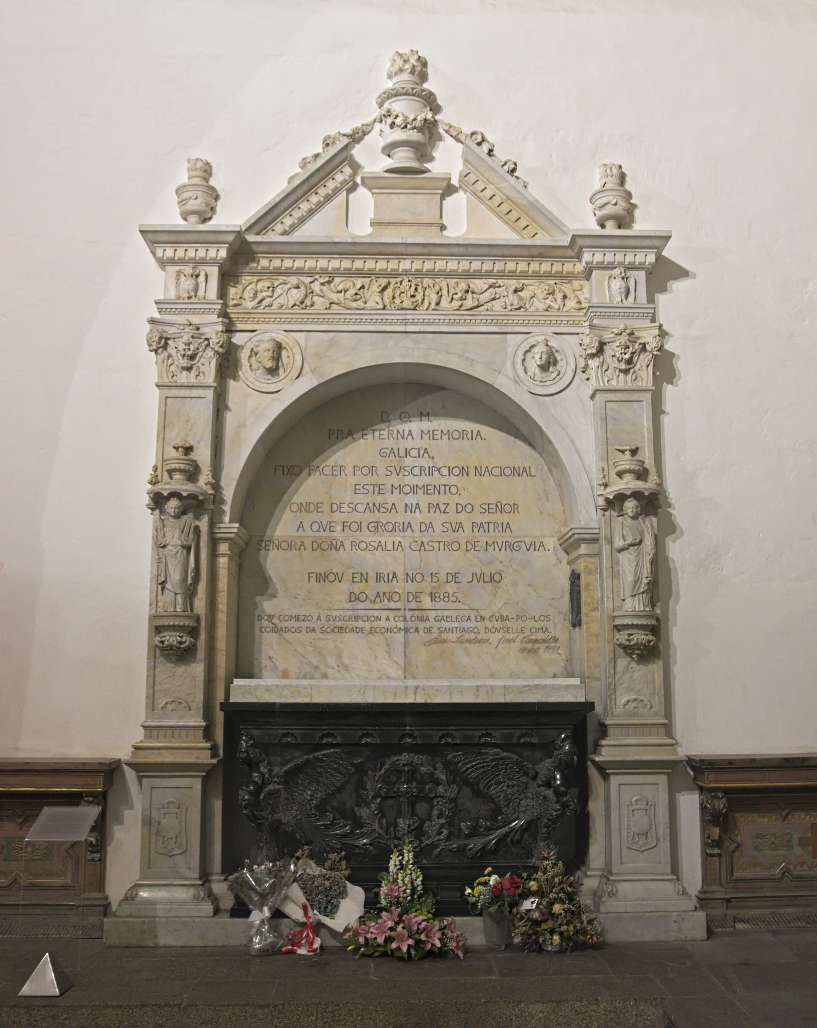 Sarcophagus of Rosalía de Castro in the pantheon of distinguished galicians in the convent of Santo Domingos de Bonaval, Santiago de Compostela, Galicia, Spain.